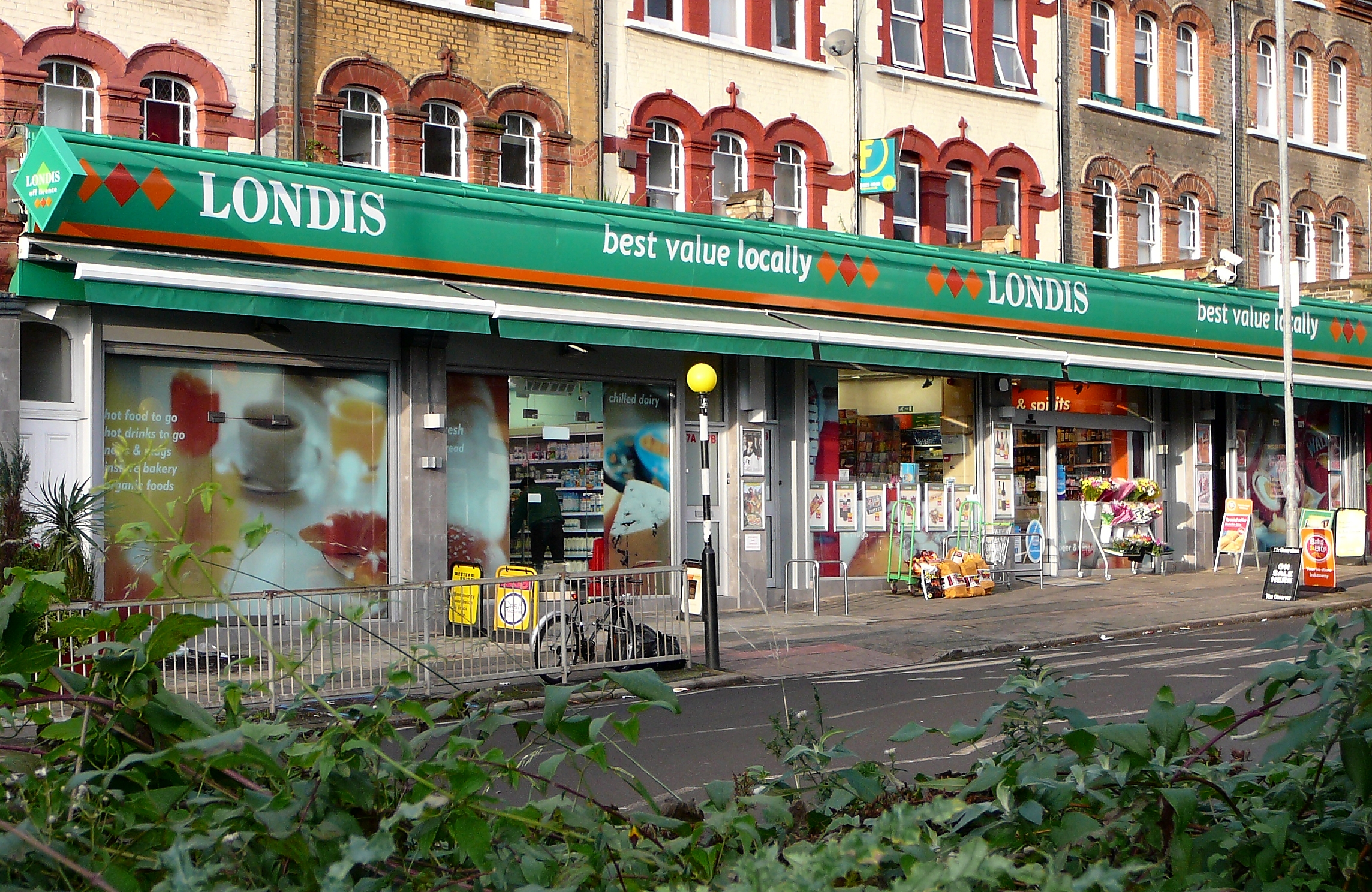 An independent supermarket operating under the Londis fascia. The store is located in Ferme Park Road, north London. The image was taken with a Panasonic Lumix DMC-TZ1.